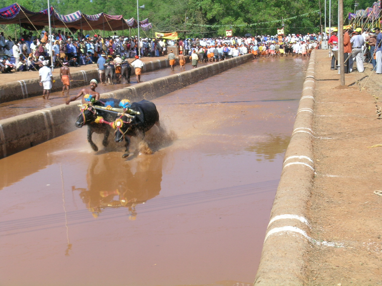 Kambala is a local sport.